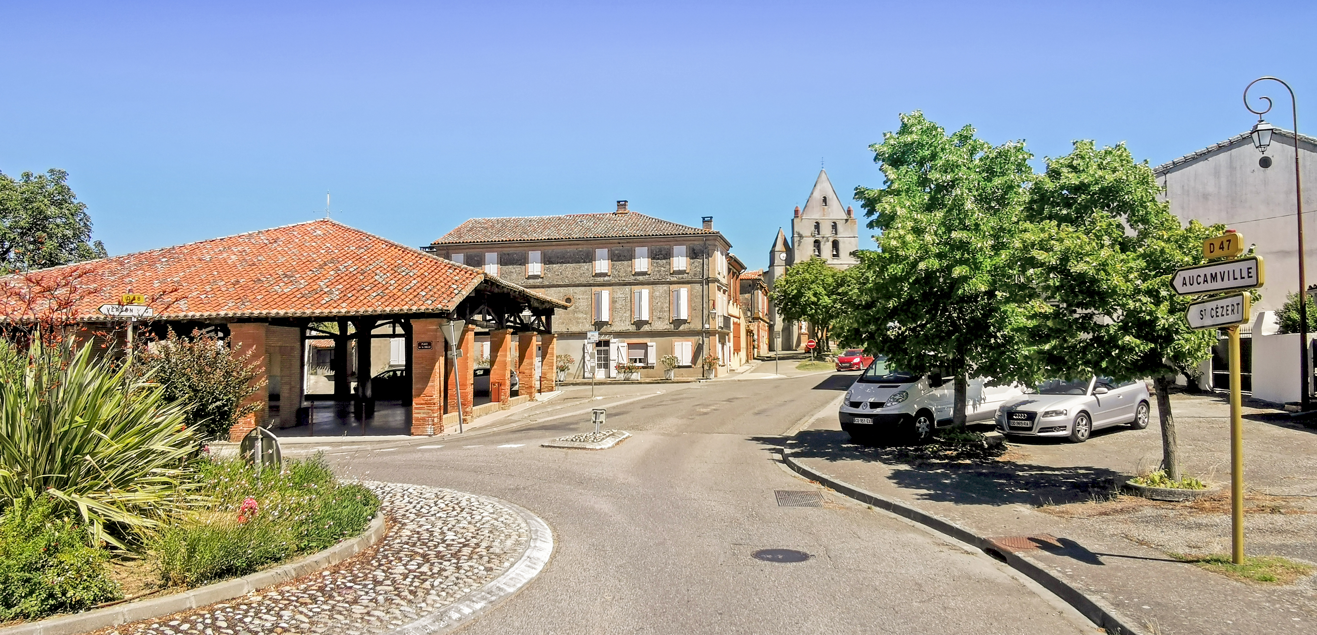 Le Burgaud - Place de la halle